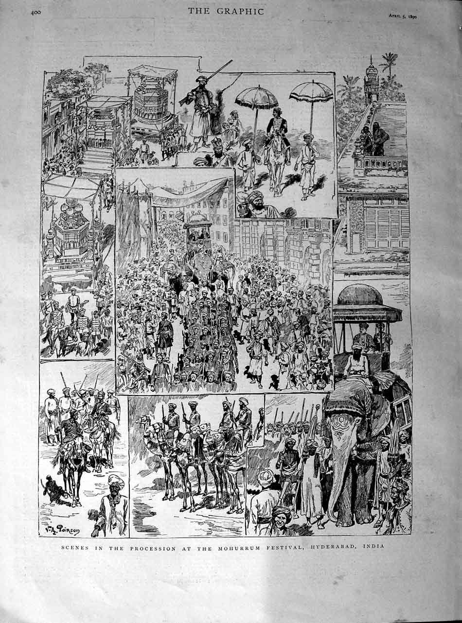 "Scenes in the procession at the Mohurrum festival, Hyderabad," from The Graphic, 1890 A full page from our volumn of the GRAPHIC, an illustrated weekly newspaper dated 1890, the scan size is approx ( including margins as shown )imately 15.5 x 11 inches (395x280). All are genuine antique prints and not modern copies the Graphic is an illustrated newspaper and is a fine example of a historic social record of British and world events up to the present day. The Graphic is known for its coverage of the following subjects the wars, ships, boats, guns, sailing, portraits, fine art, old and antique prints, wood cut, wood engravings, early photographs, Victorian life, Victorian culture, kings, queens, royalty, travels, adventures, natural history, birds, fish, mammals, fishing, hunting, shooting, fox hunting, sports including tennis, cricket, football, horse racing, politics and many more items of interest.